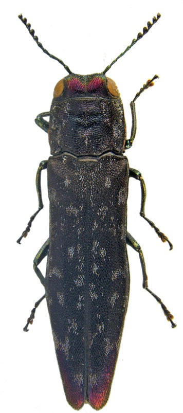 Agrilus pseudoambiguus Jendek 2013, holotype.